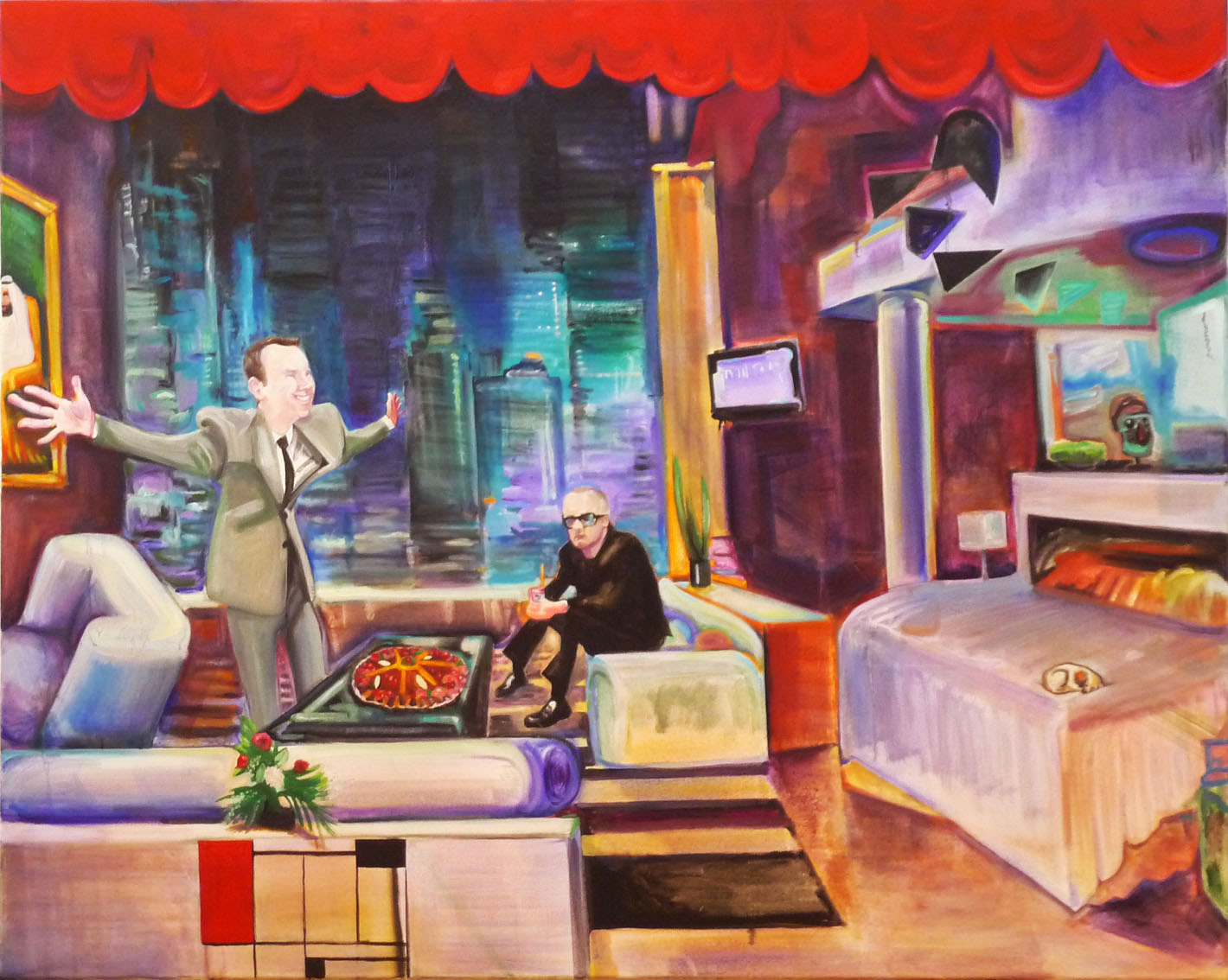 Damien Hirst et Jeff Koons se partageant le marché de l’art inspired by the fictional artwork by the fictional artist Jed Martin from Michel Houellebecq’s The Map and the Territory (French: La Carte et le Territoire). Oil on canvas, 120x150 cm.